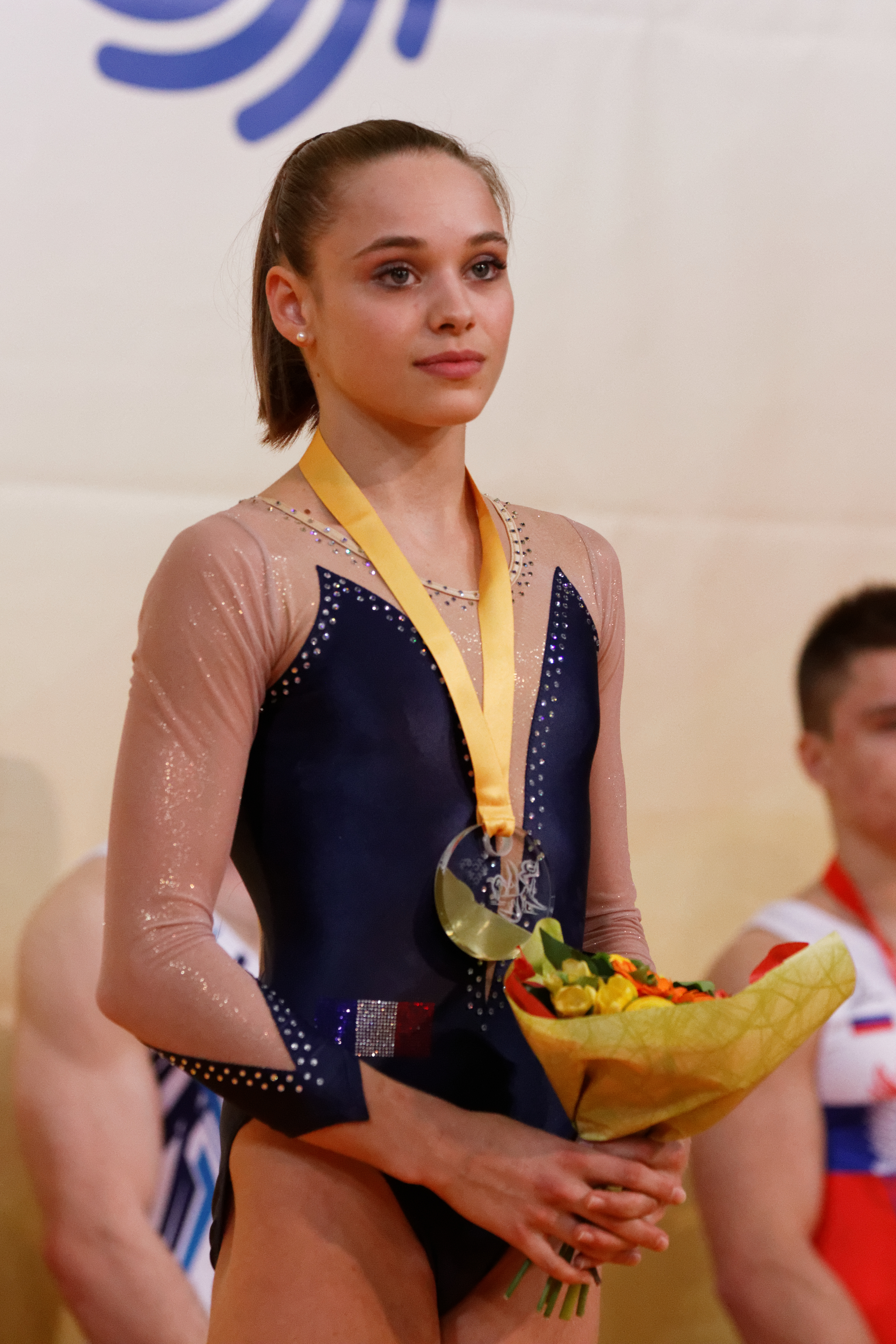 2015 European Artistic Gymnastics Championships. Bamance beam.